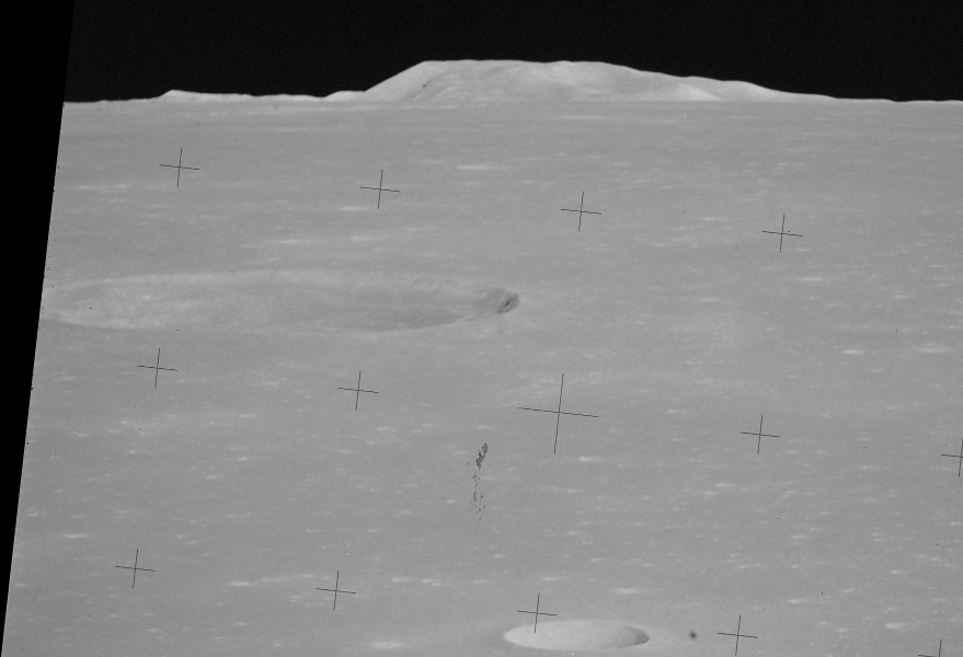 Oblique view of Helicon (left), facing northeast, with Promontorium Laplace on the horizon.